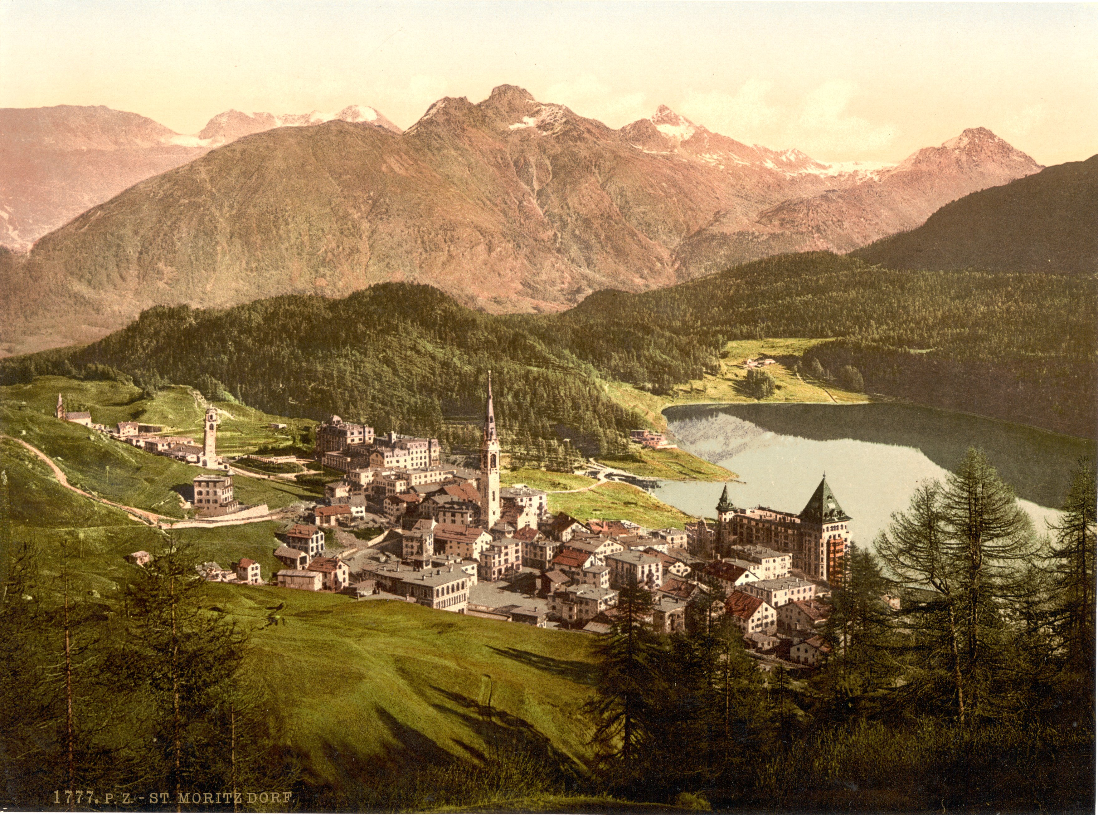 St. Moritz